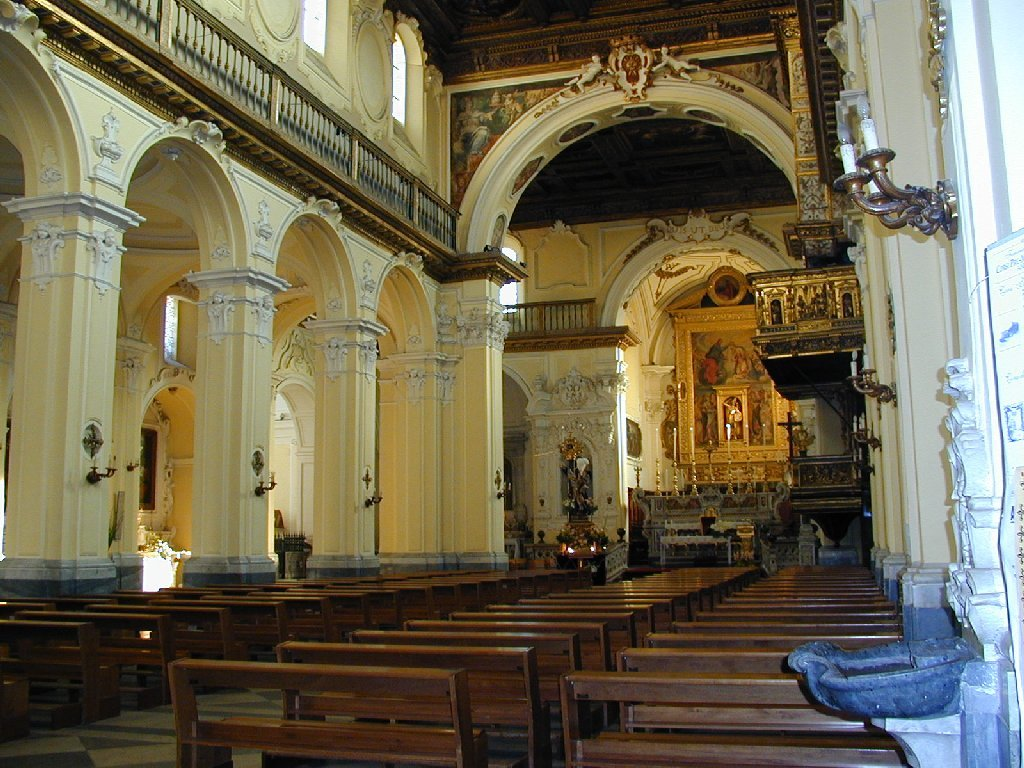 Church picture